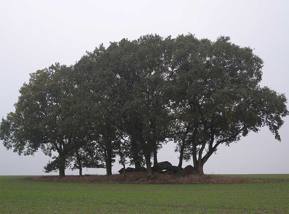 Großsteingräber bei Bornsen, Grab 1